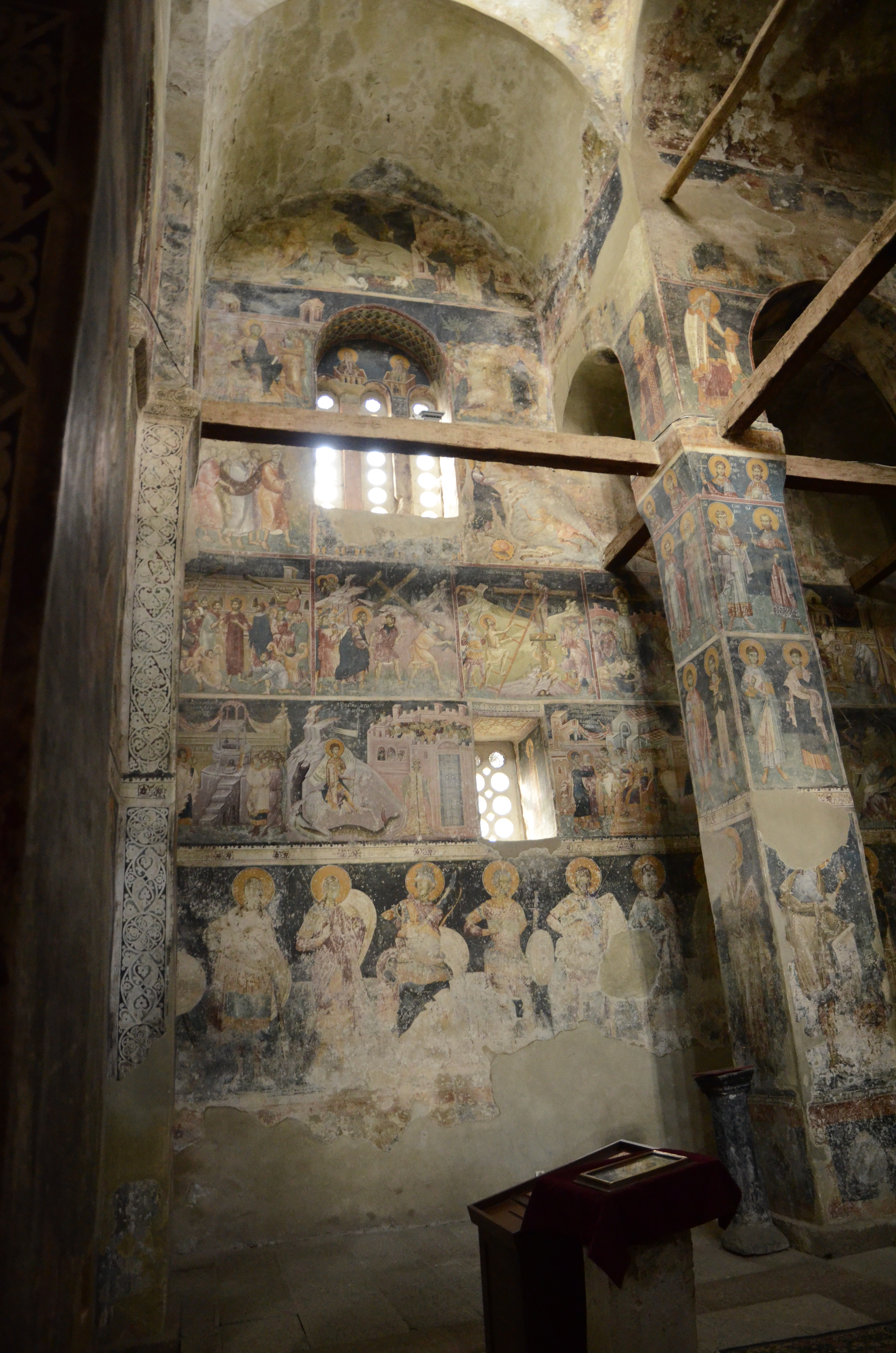 Church of Saint George in Staro Nagorichino, frescos on the northern wall